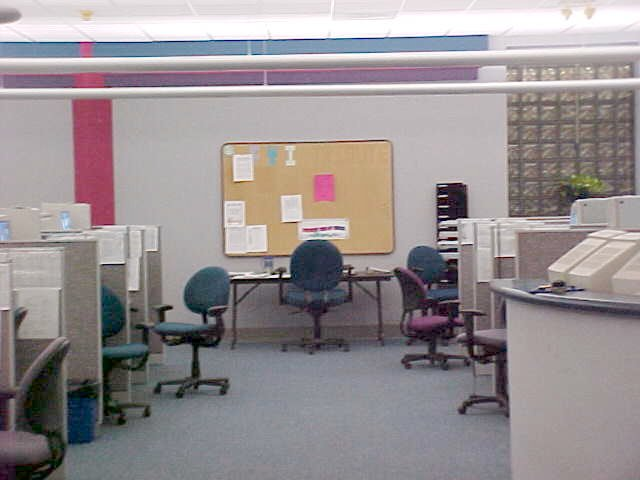 CFW Information Services call center in Waynesboro, Virginia, showing the area behind the in-charge desk.